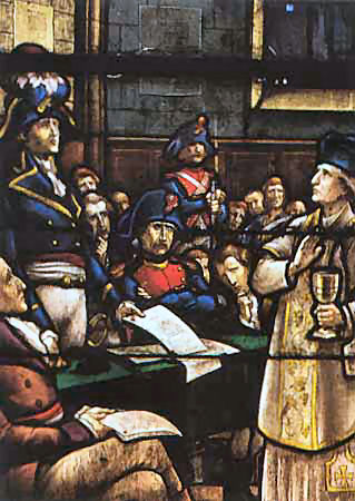 Stained glass window in the church of Le Louroux-Béconnais presenting the sentencing to death of Noёl Pinot by the french revolutionary tribunal